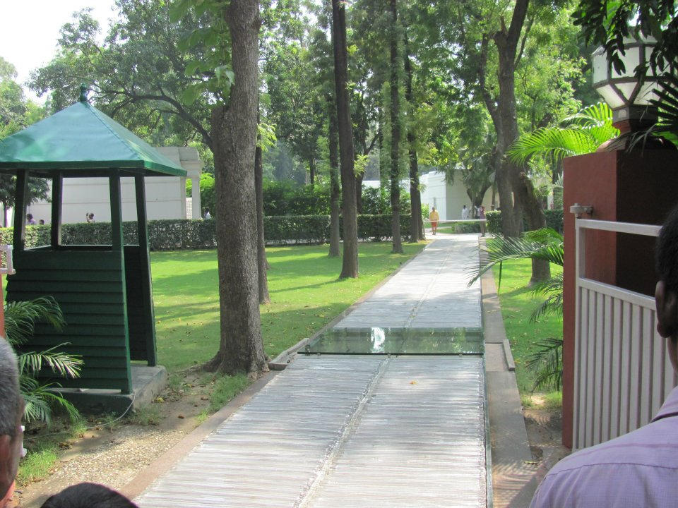 Indira Gandhi was shot at this place